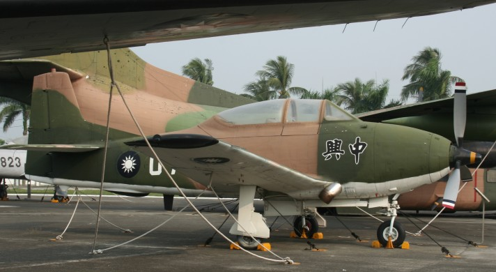 AIDC T-CH-1 Chung-Hsing at the Republic of China Air Force Museum in Gangshan District, Kaohsiung City, Republic of China